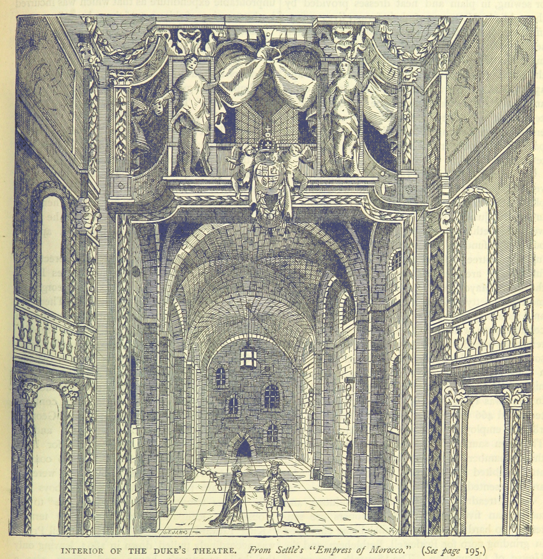 The engraving, taken from Settle's "Empress of Morocco" (1678), represents the stage of the theatre of the Duke's Company in Lincoln's Inn Fields, created in Portugal Street, on the south side of Lincoln's Inn Fields, on the site of the old Tennis Court, to where William Davenant had migrated, having initially put on plays in Salisbury Court, on the site of the granary of Salisbury House.